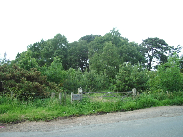 Tarn Wadling On the top rail of the field gate a small plaque has been fixed with this dedication "Part of this woodland is dedicated to the memory of Frederick Rockett of Torquay Devon." Tarn Wadling is cared for by the Woodland Trust